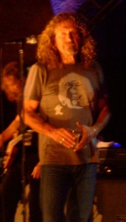 Robert Plant Live @ Taormina 2007